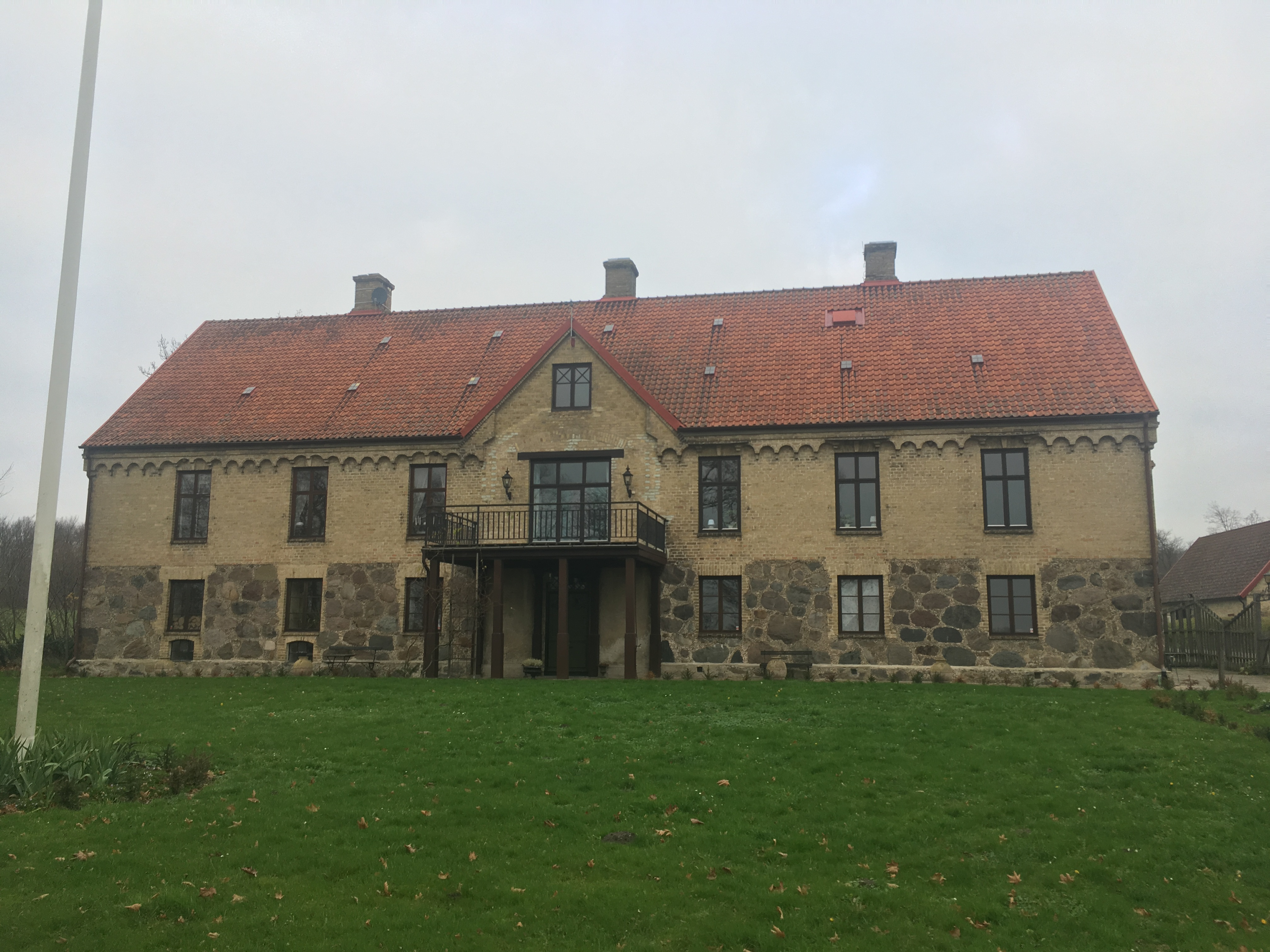 Svansjö säteri